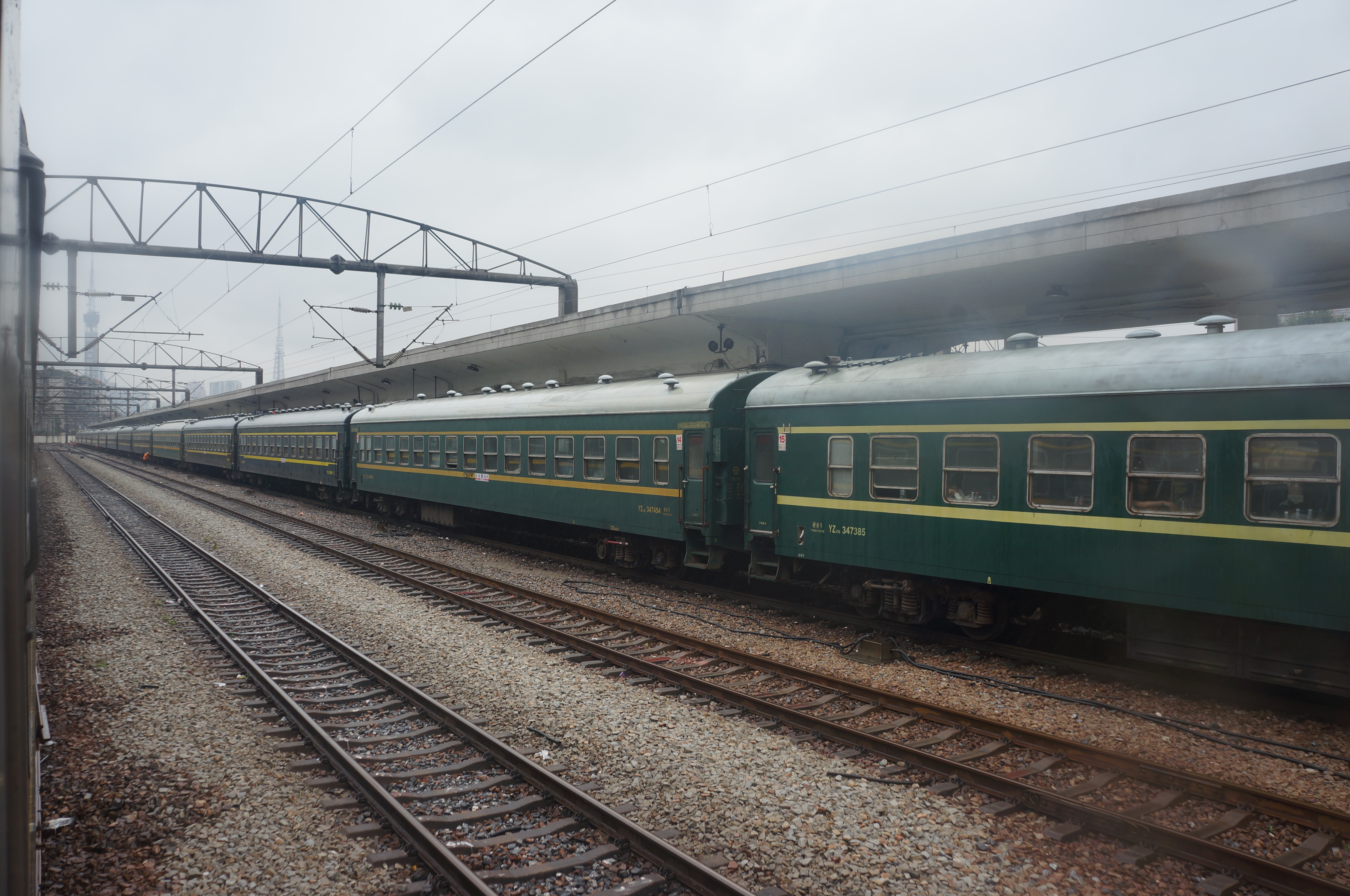 201609 25B coaches (K9087 from Zhangjiajie to Shenzhen) at Guangzhou Station, Z99 was stuck here in order to make the way for Z97.